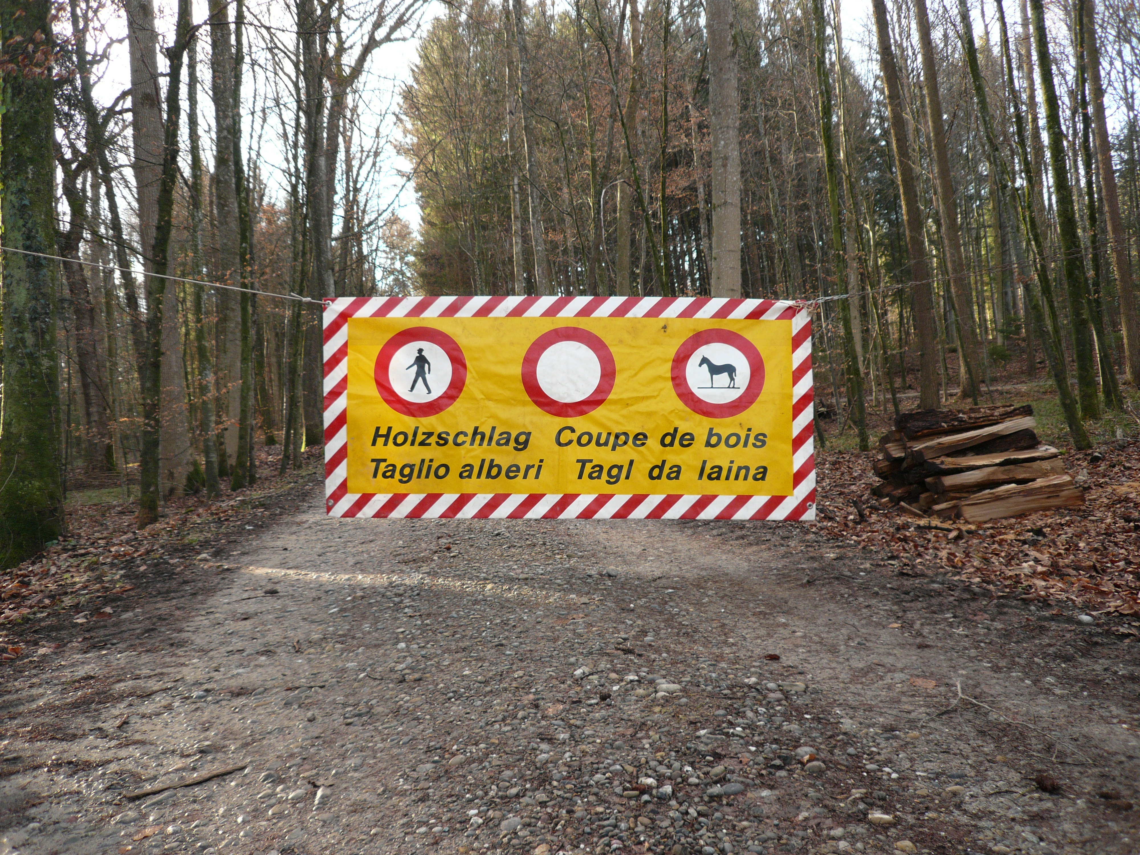 Sign in Switzerland's four official languages